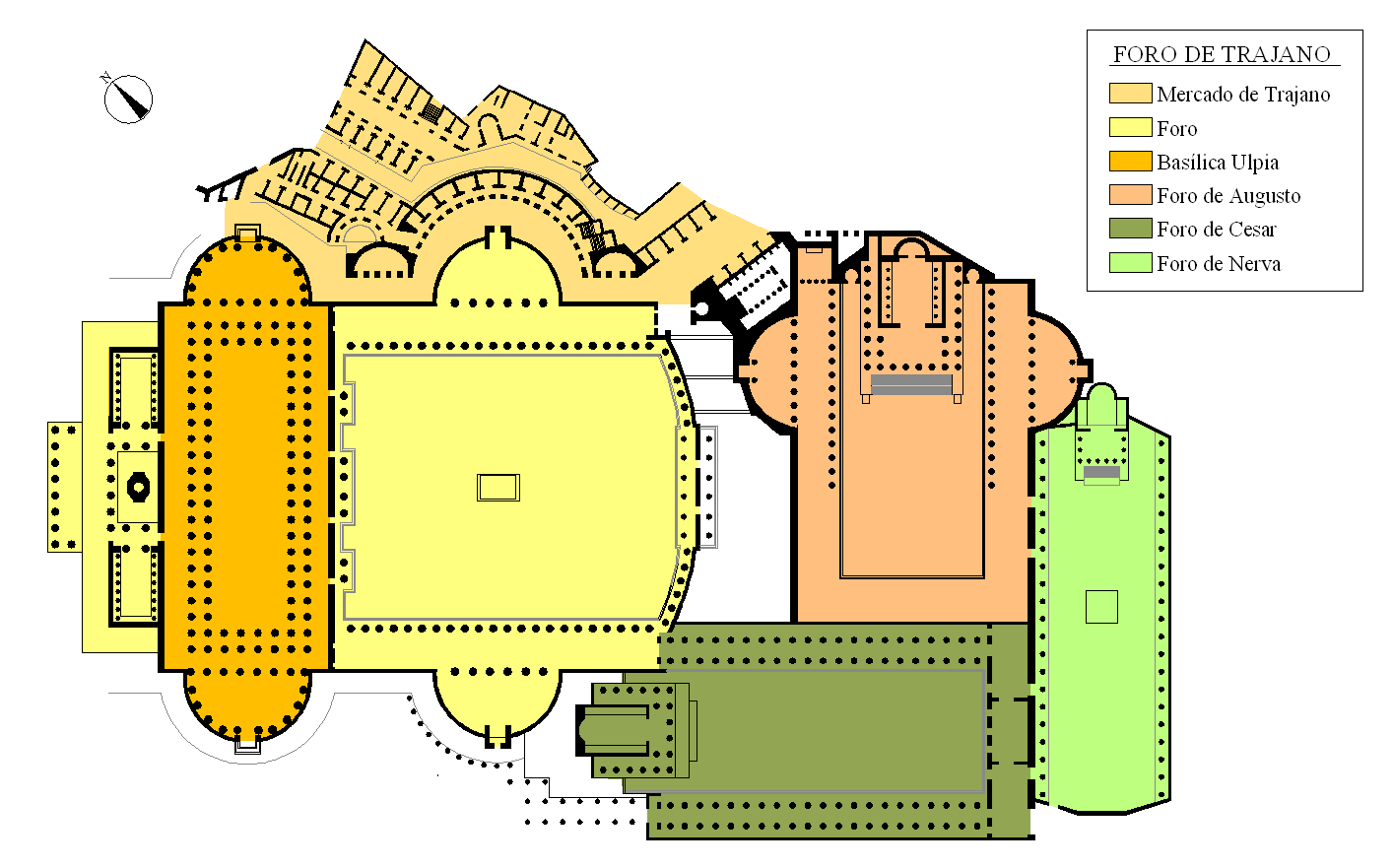 Imperial fora, Rome. Colored. Trajan's Forum (light yellow, left), ... Nerva's forum (green).